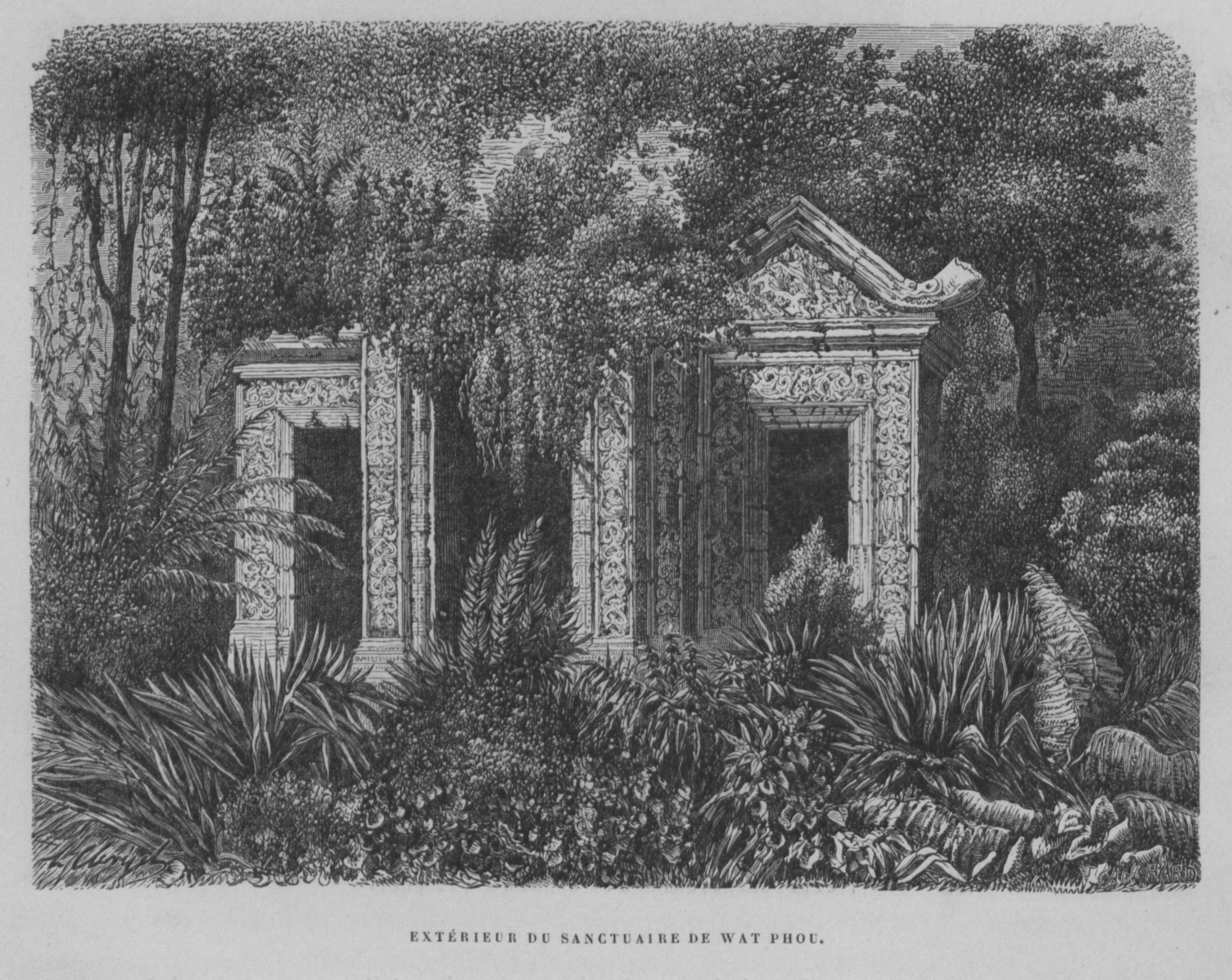 Voyage d'exploration en Indo-Chine (1873, Francis Garnier), downloaded from